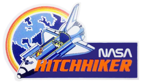 NASA Hitchhiker Program logo